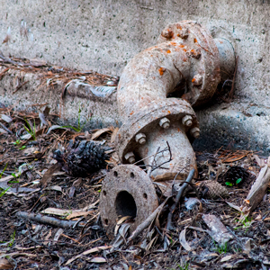 Inlet pipe, east end of Spreckels Lake, Golden Gate Park, San Francisco, CA, USA. Visible because the lake was drained for maintenance.